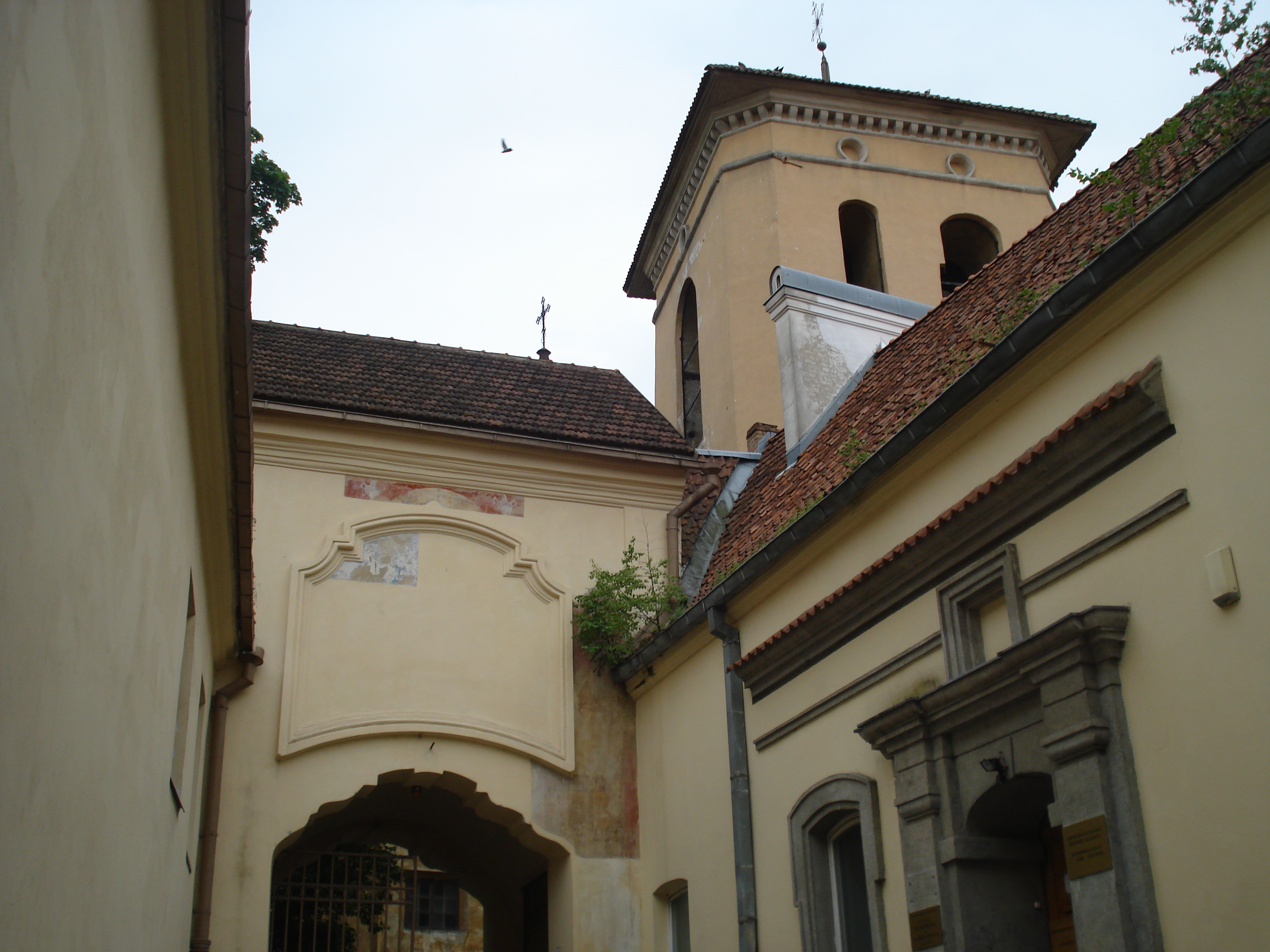 Baroque gate of the Basilian (Uniate) monastery of the Holy Trinity in Vilnius (Brama klasztoru Bazylianów w Wilnie)